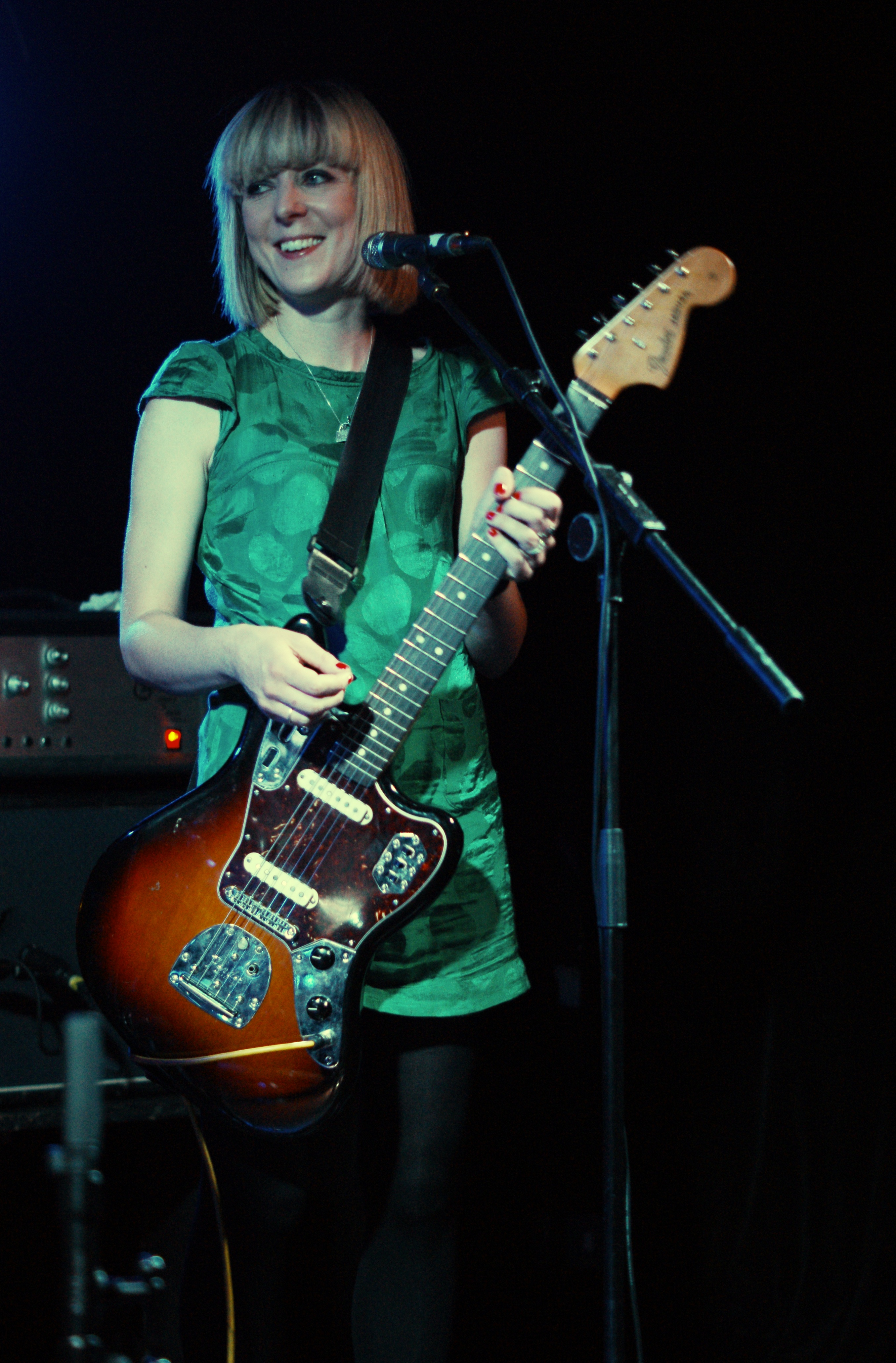 Holly Ross of The Lovely Eggs at the Night and Day Cafe, Manchester, on Wednesday the 1st of June 2011.